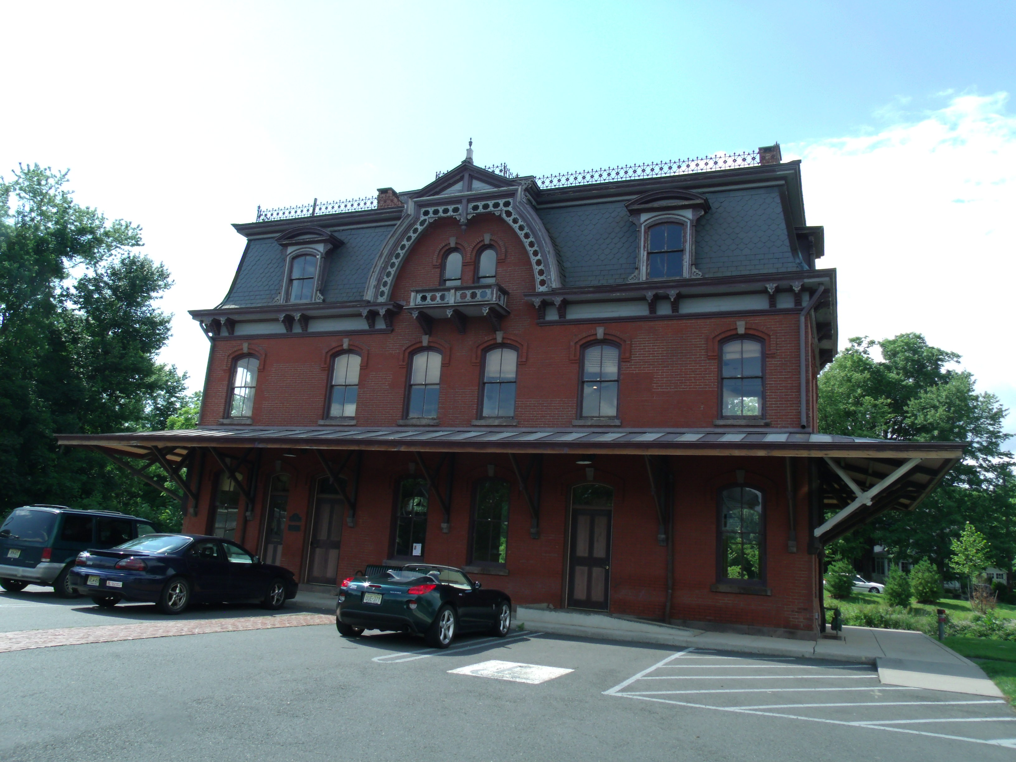 The passenger train station of Hopewell, NJ, which has not been used as a passenger station since 1982. It has an office on the second floor and what may be in use as meeting or catering rooms downstairs.